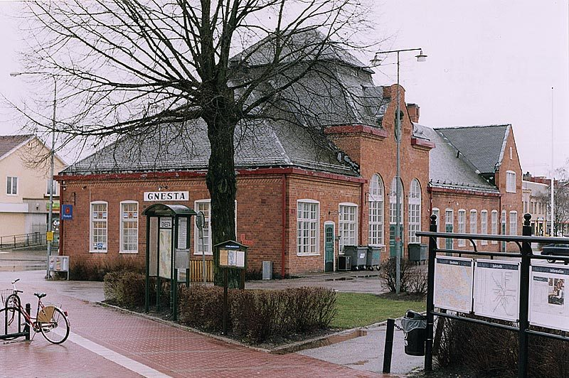 Gnesta railway station is a railway station in Gnesta, between Nyköping and Södertälje in Sweden.